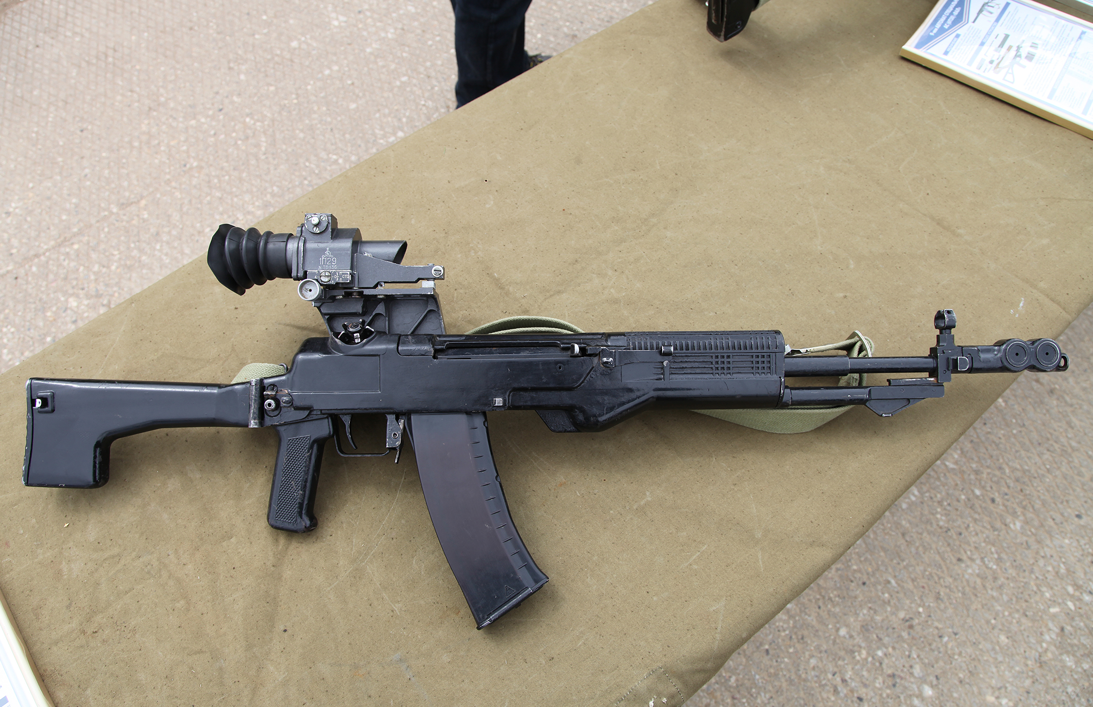 Prototype of AN-94 assault rifle, also known as LI-291 - Tank Biathlon-2014